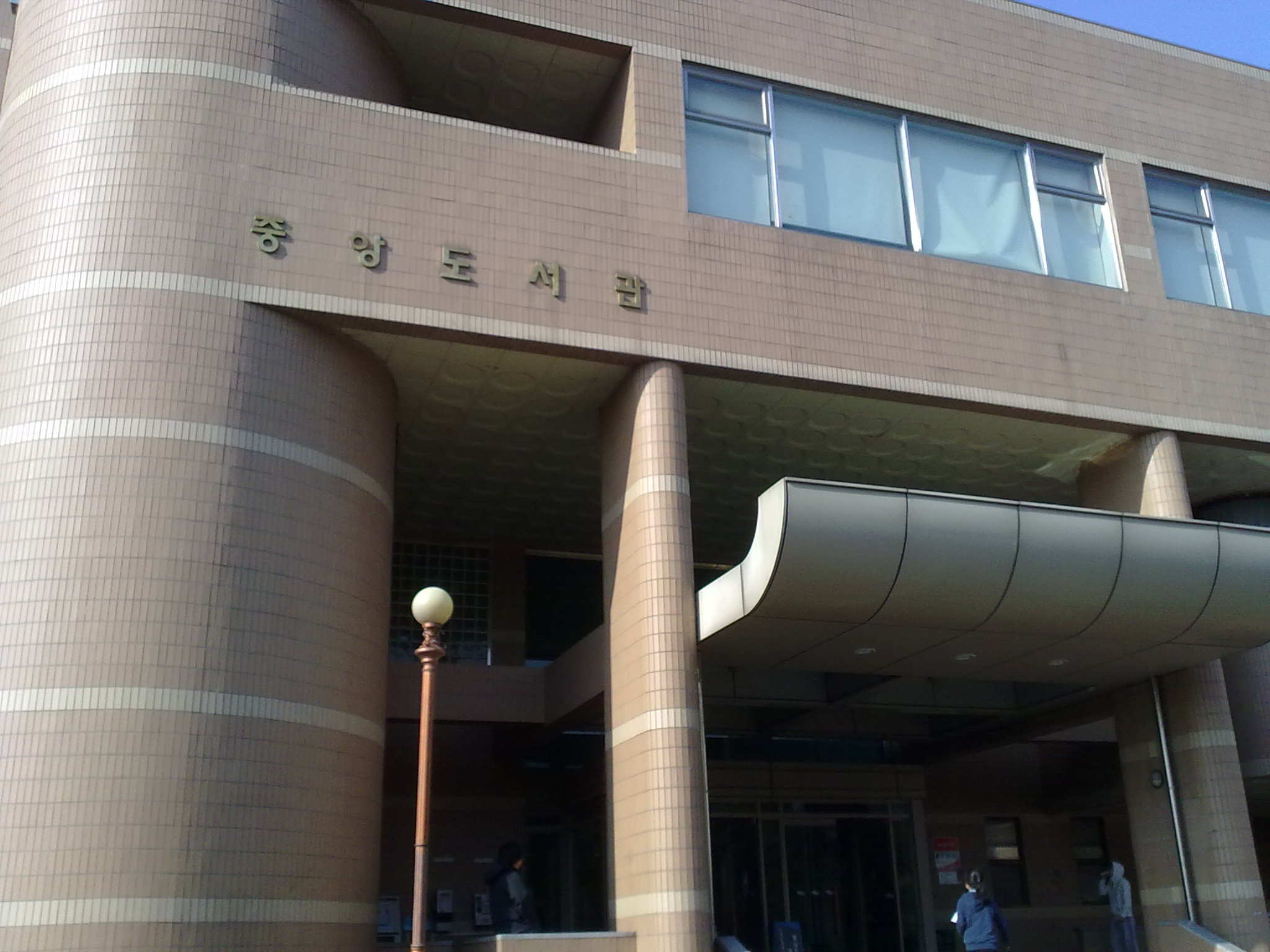 Main Library of the University of Seoul.